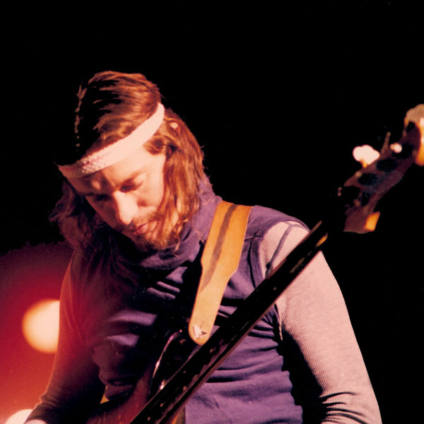 This photo wasn't taken in Napoli but in Bologna in 1986. Jaco was Playing with Biréli Lagrène & Thomas Borocz. My source is Ingrid: his wife.